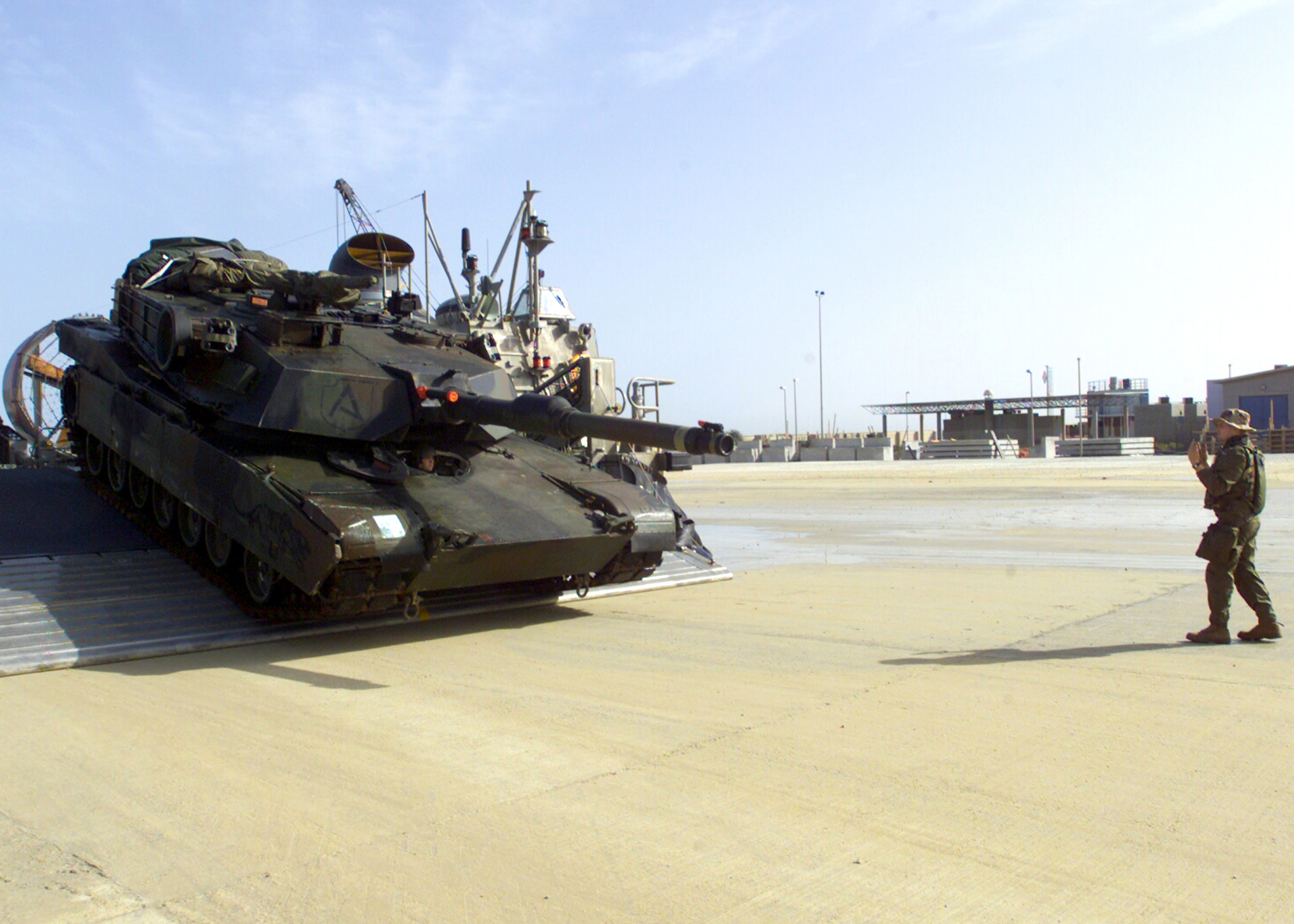 Kuwait (Feb. 15, 2003) -- An U.S. Marine from the 2d Marine Expeditionary Brigade (2d MEB) directs an M1A1 Main Battle Tank off a Landing Craft, Air Cushioned (LCAC) from Assault Craft Unit 4 (ACU-4), at a Kuwaiti port facility. Elements of the 2-MEB have been deployed in support of the global war on terrorism, and other operations in support of national interests as directed. U.S. Navy photo by Photographer’s Mate 3rd Class Angel Roman-Otero. (RELEASED) For more information about the M1A1 Main Battle Tank go to the U.S. Marine Corps fact file at